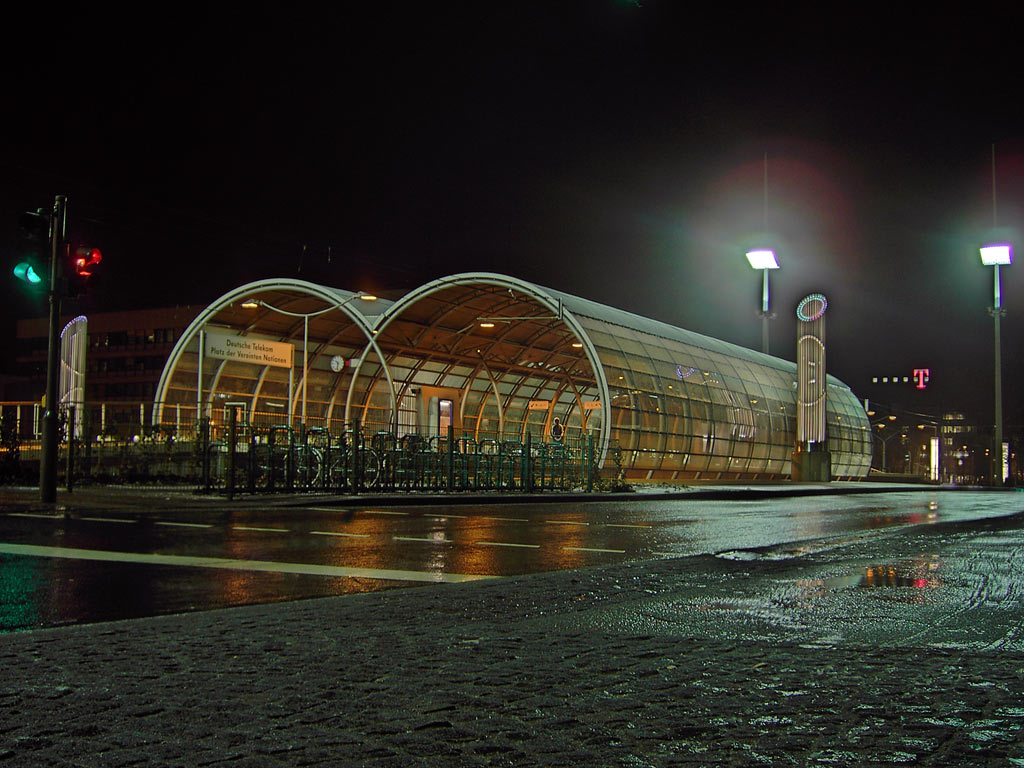 City railway stop Deutsche Telekom/Platz der Vereinten Nationen (now Deutsche Telekom/Olof-Palme-Allee in Bonn